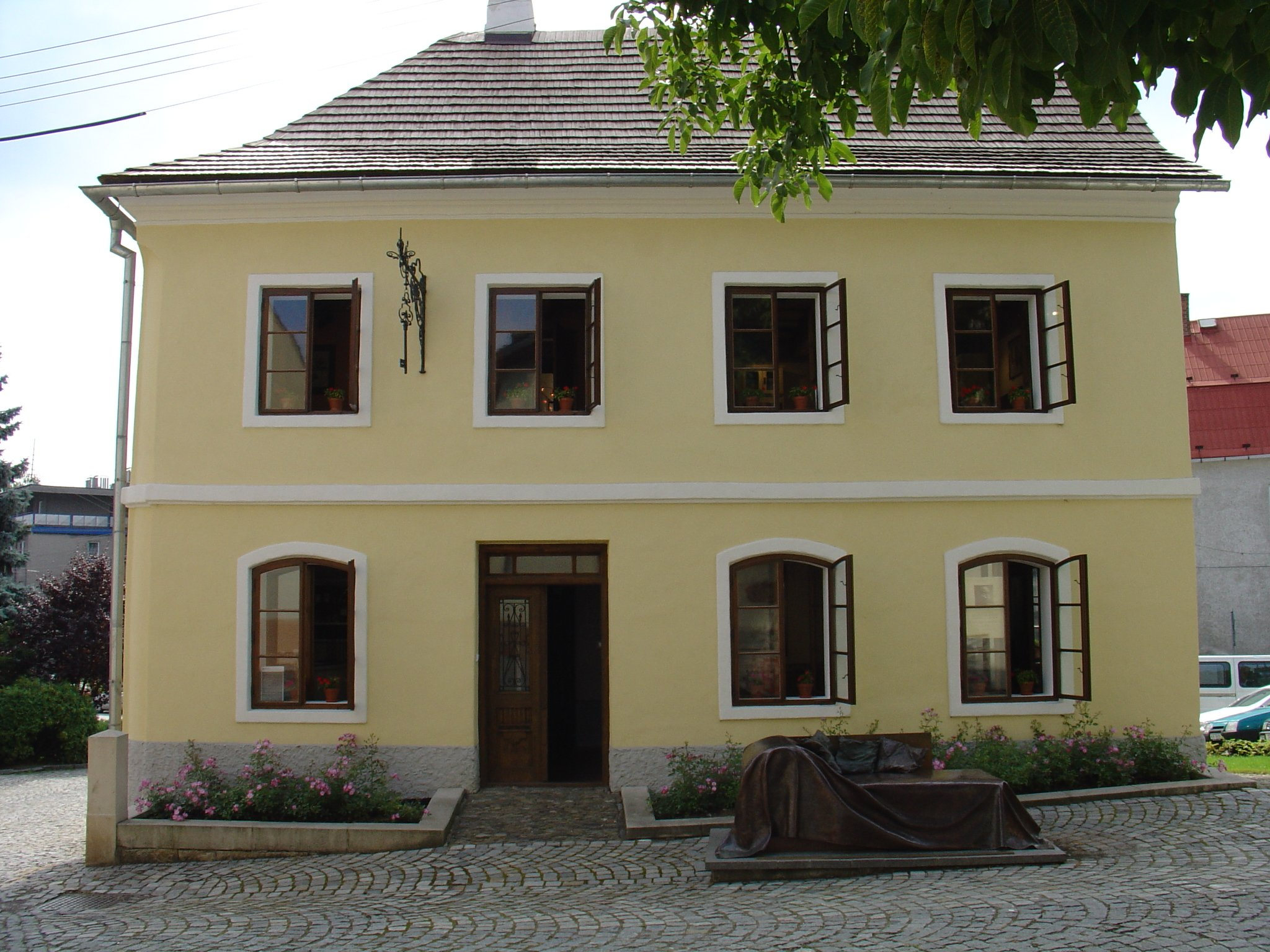 Birthplace of Sigmund Freud in Pribor, Czech republic.